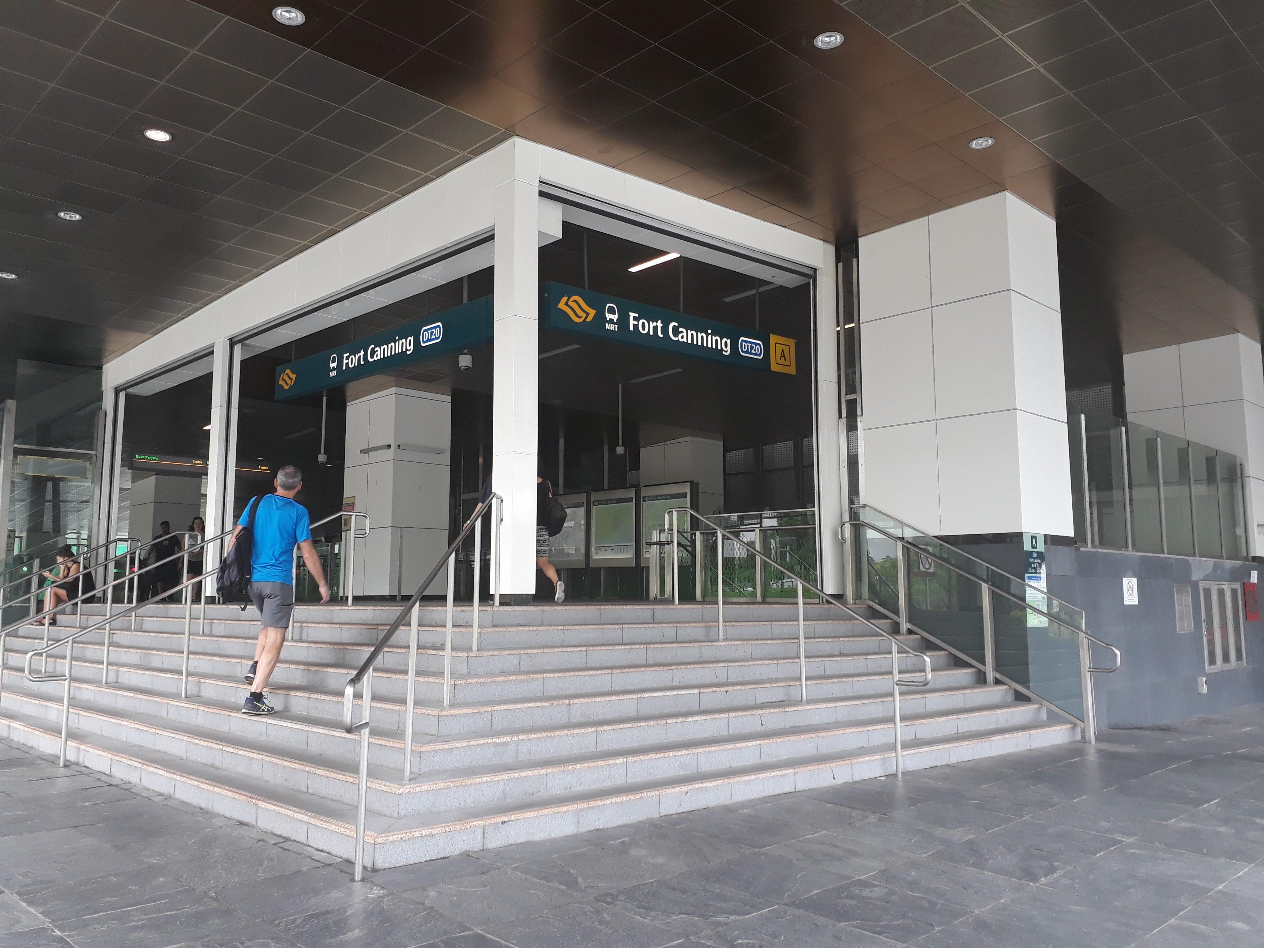 Exit A of Fort Canning